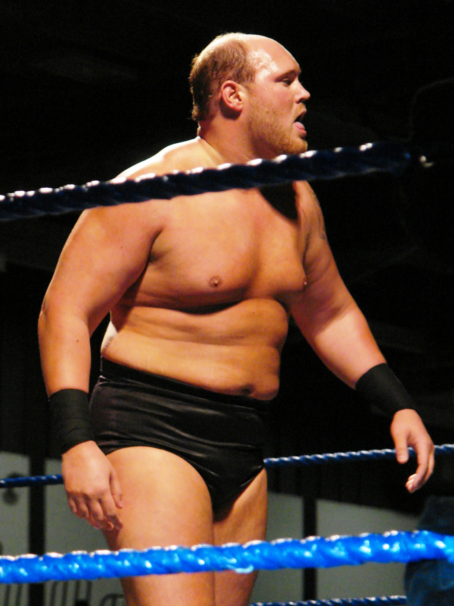 Cropped version of Image:Jesse Festus Oshkosh WI 030808.jpg